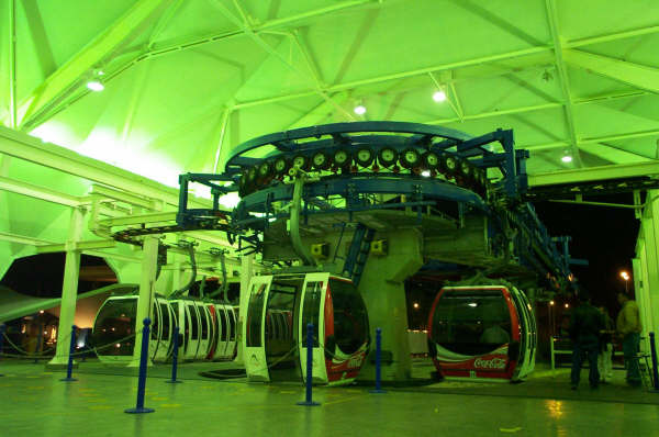 Teleferico de Caracas